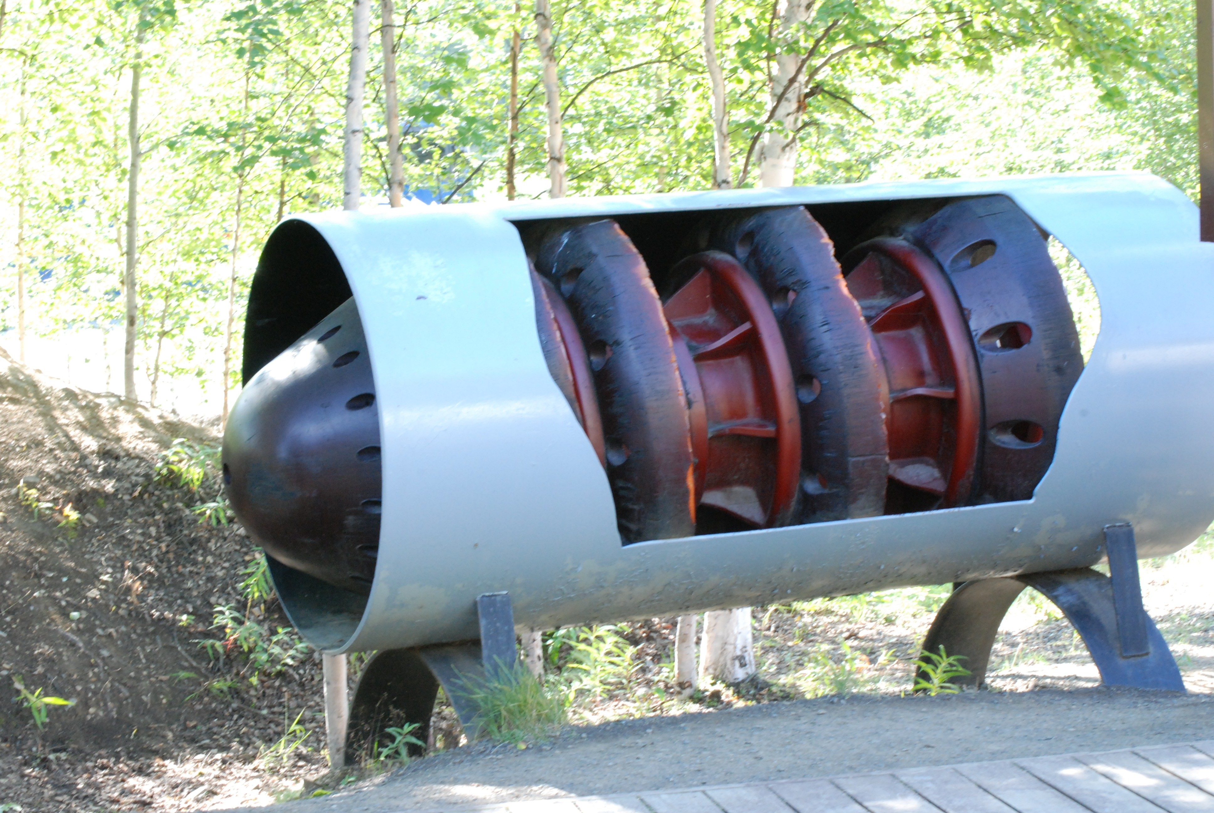 A pipeline inspection gauge (informally known as a "pig") used to clean the inside of an oil pipeline. On display in a section of cutaway pipe at an interpretive center near Fairbanks, Alaska, along the Trans-Alaska Pipeline.